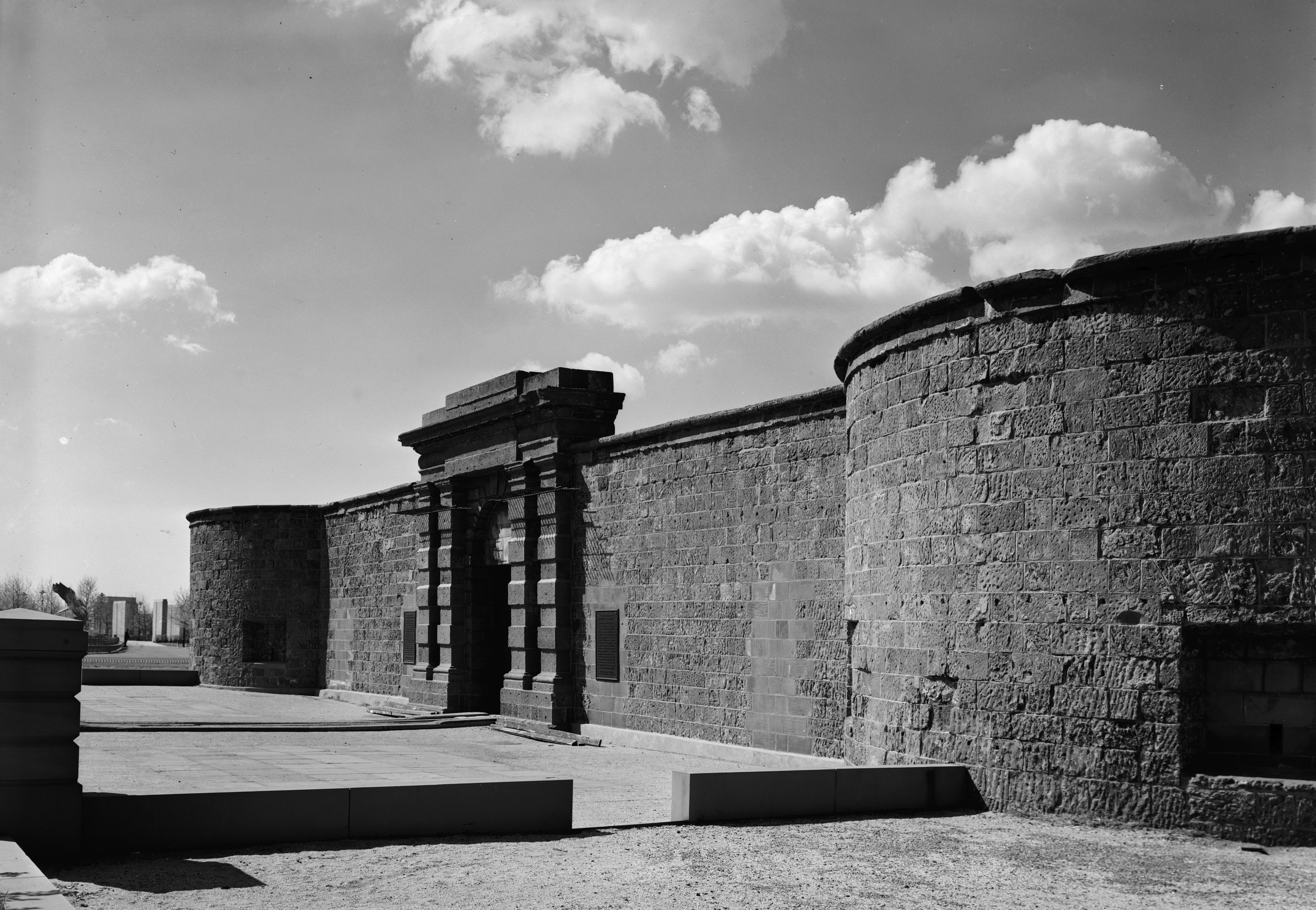 Castle Clinton in Battery Park, New York City Perspective view (Northwest) of main gate. Image courtesy of Historic American Buildings Survey—HABS.